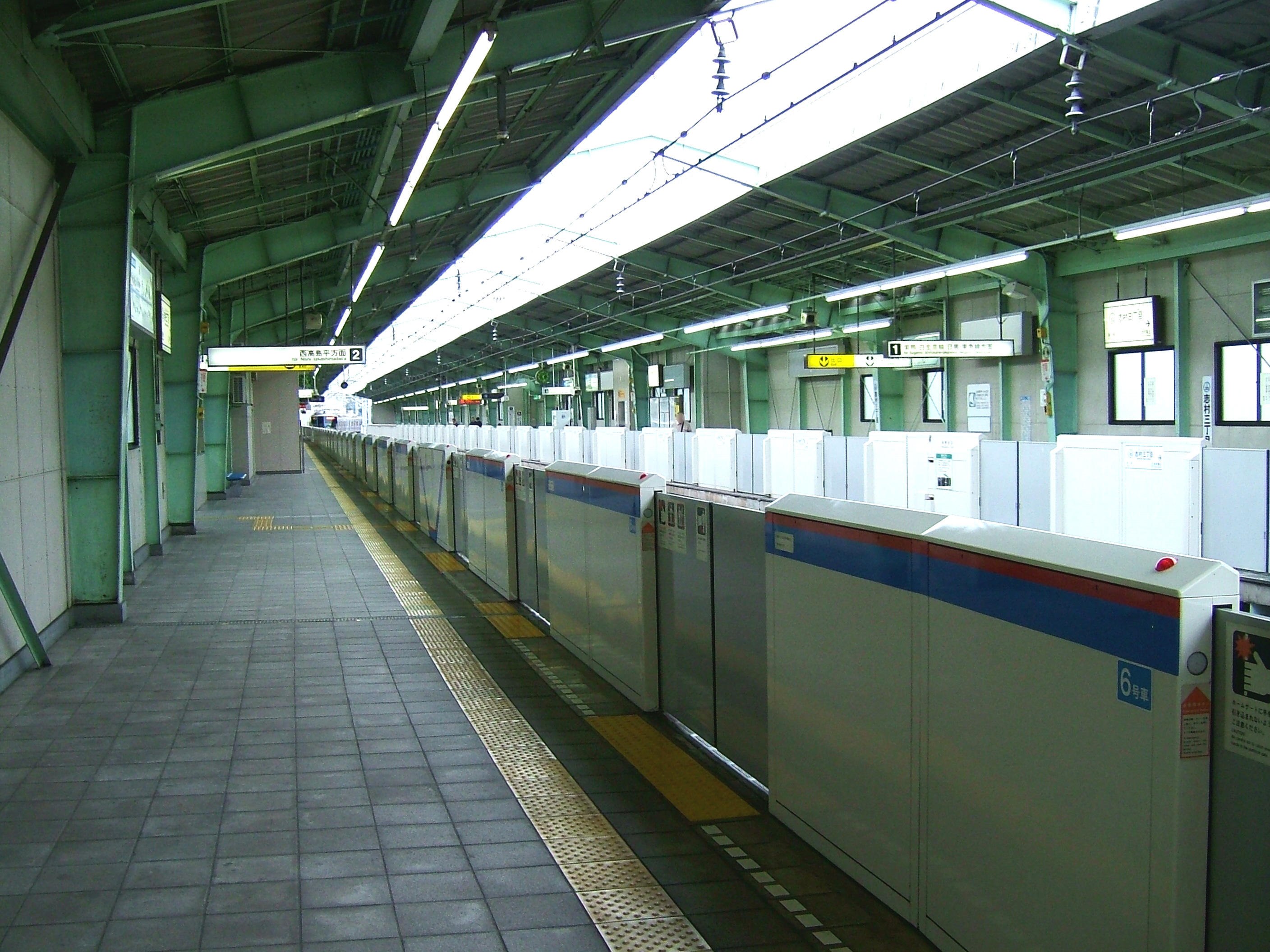 The platforms at Shimura-sanchōme Station on the Toei Mita Line in Itabashi city, Tokyo, Japan